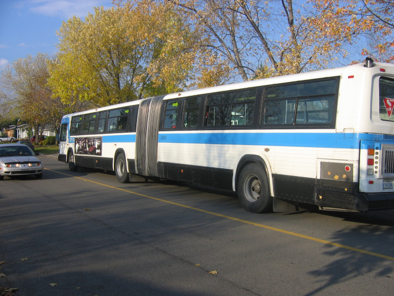 Double bus in Quebec City, 2005